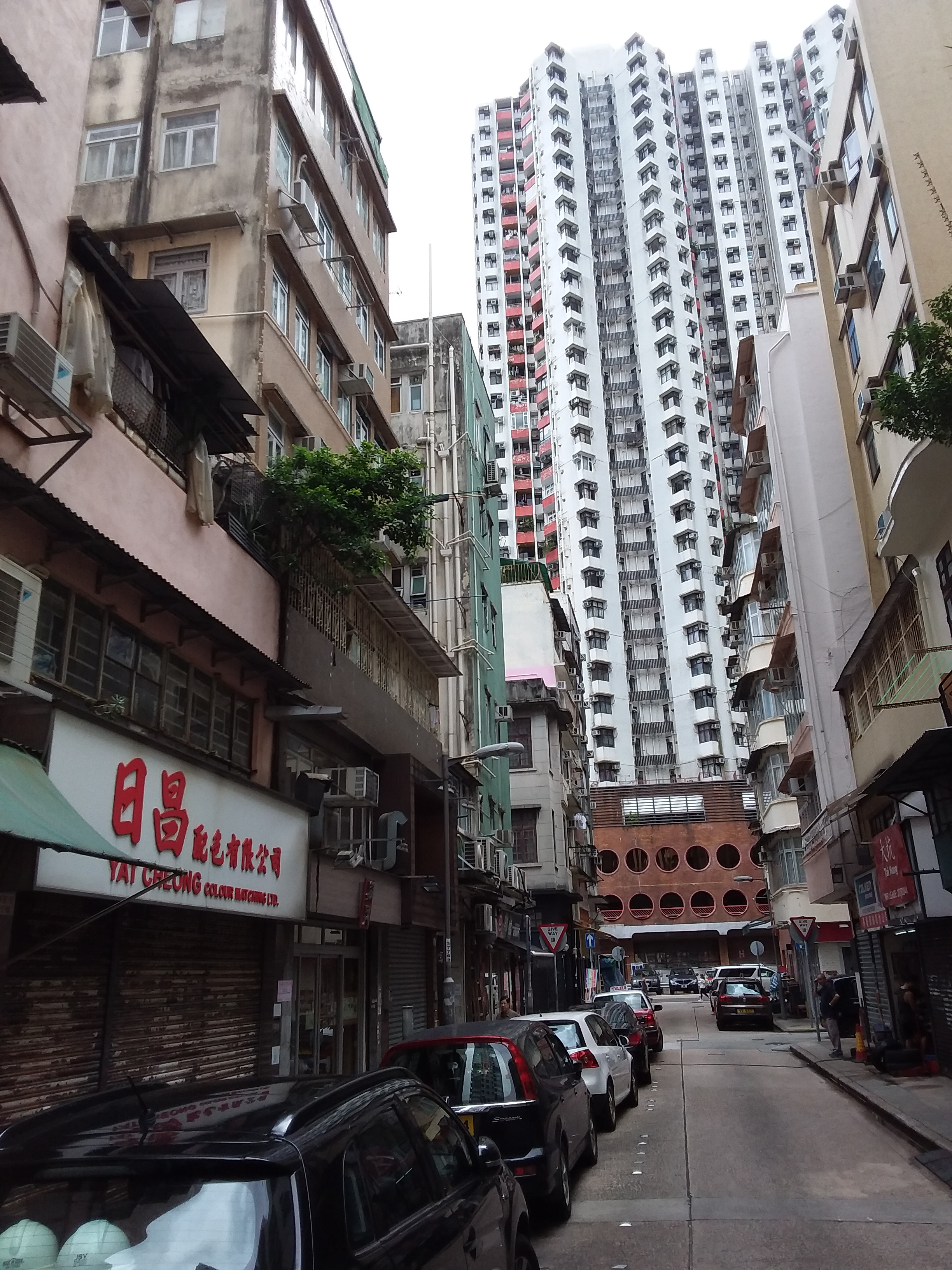 HK 大坑 Tai Hang Sunday morning in July 2019